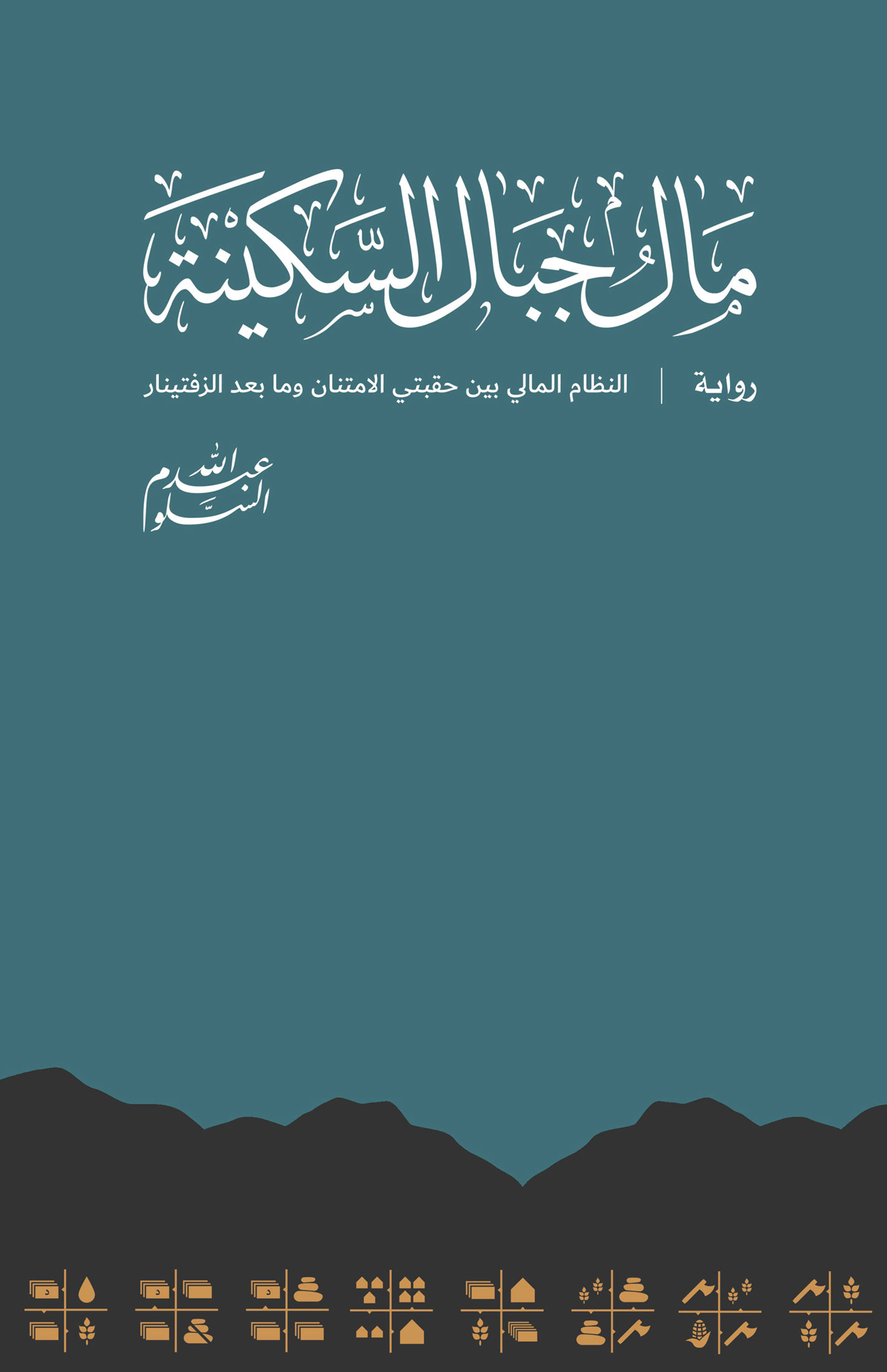 Front cover of The Currency Of Mount Serenity book.